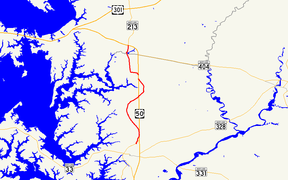 Map of Maryland Route 662